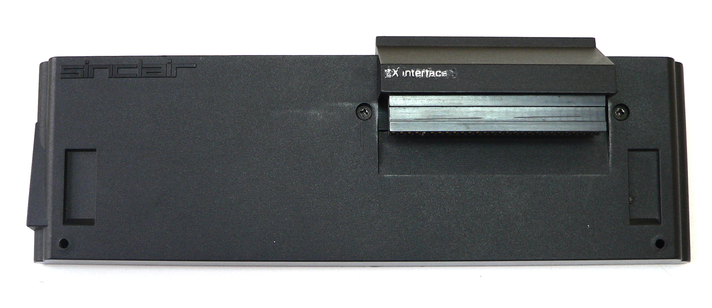 ZX Interface 1